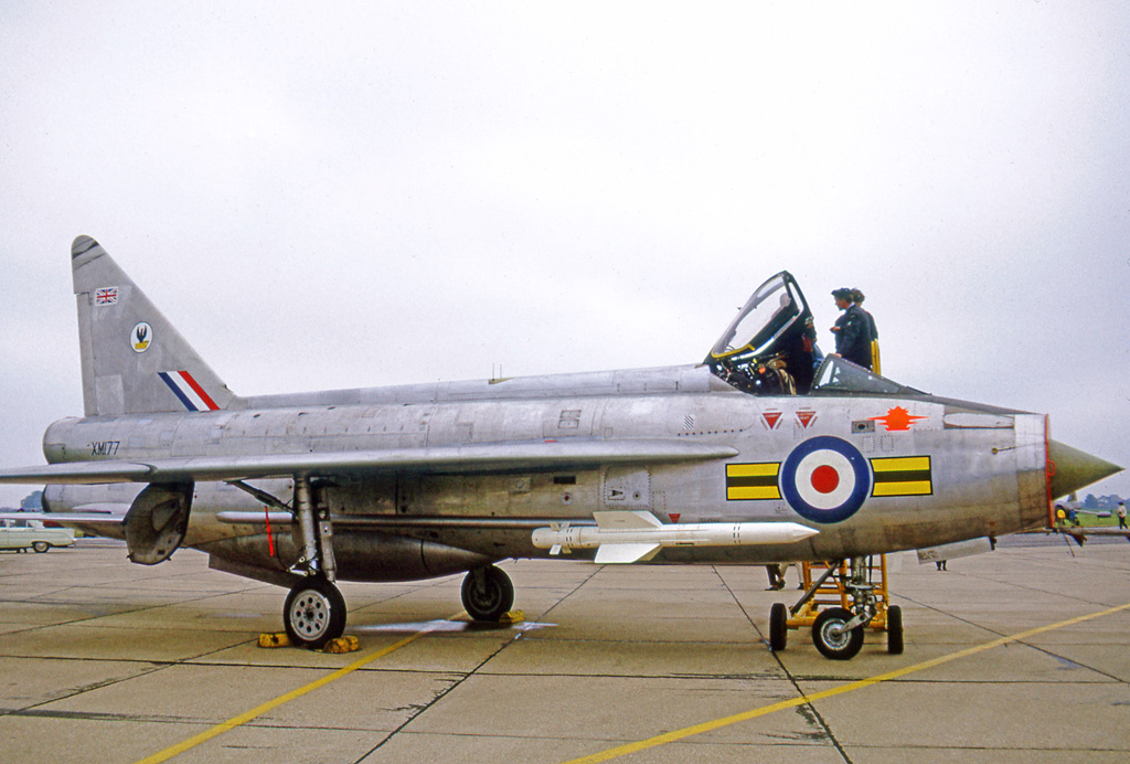 English Electric Lightning F1A XM177 of the RAF Wattisham Target Facilities Flight at RAF Mildenhall in 1971